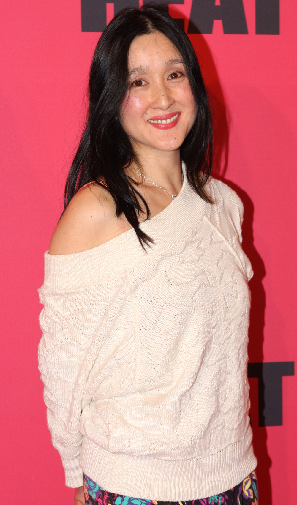 The Heat red carpet movie premiere in Sydney, Australia with Sandra Bullock - 2nd July 2013... Sandra Bullock, a good looking 48-year is in town to promote her new movie, The Heat. Early in the day she hopped a luxury boat on Sydney Harbour to enjoy our city. Event Cinemas in George Street says Bullock and Melissa McCarthy playing detectives in a cop comedy. Bullock plays successful, but highly highly strung FBI special agent Sarah Ashburn and is partnered with tough Boston cop Shannon Mullins (McCarthy). The girls are after a drug boss... of course. Early reviews and box office numbers demonstrate that Bullock's latest movie will be a thumbs up with fans and movie execs. The action-comedy grossed $US40 million ($43.7 million) - in second earnings place - in its opening weekend. Plot Outline: Uptight FBI Special Agent Sarah Ashburn (Sandra Bullock) and foul-mouthed Boston cop Shannon Mullins (Melissa McCarthy) couldn’t be more incompatible. But when they join forces to bring down a ruthless drug lord, they become the last thing anyone expected: buddies. From Paul Feig, director of “Bridesmaids.” Cast... Sandra Bullock as FBI Special Agent Sarah Ashburn Melissa McCarthy as Detective Shannon Mullins Dan Bakkedahl as DEA Agent Craig Demián Bichir as Hale Tom Wilson as Captain Woods Michael Rapaport as Jason Mullins Marlon Wayans as Levy Tony Hale as The John Taran Killam as Adam Nathan Corddry as Michael Mullins Kaitlin Olson as Tatiana Bill Burr as Mark Mullins Michael McDonald as Julian Lance Norris as Scruffy Bar Patron Jamie Denbo as Beth Jessica Chaffin as Gina Steve Bannos as Wayne Raw Leiba as Paint Factory Henchman Joey McIntyre as Peter Mullins Paul Feig as Doctor Websites The Heat 20th Century Fox Eva Rinaldi Photography